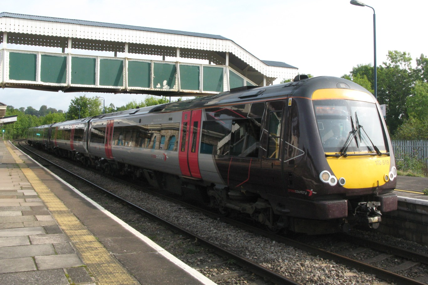 A four-car Nottingham to Cardiff service calls at Chepstow. It is formed by CrossCountry's units 170519 and 170523.